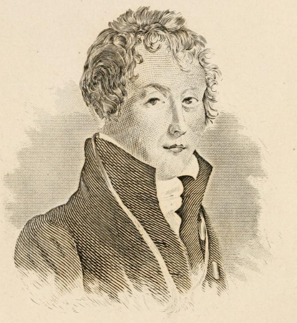 Robert Taylor author of Syntagma of the Evidences of the Christian Religion (1828).